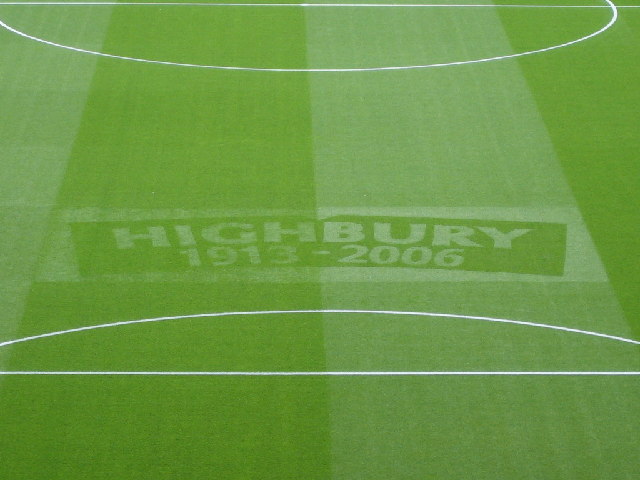 Highbury 1913-2006. Taken from the North Bank Upper Tier before the first home game of the 2005-2006 season